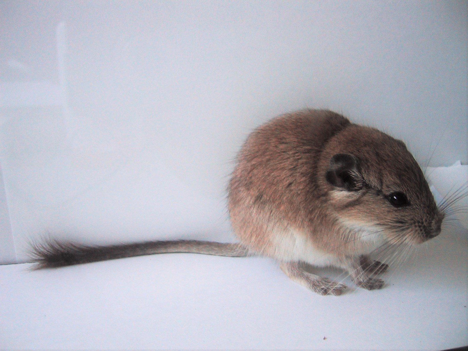 Tympanoctomys barrerae (young)